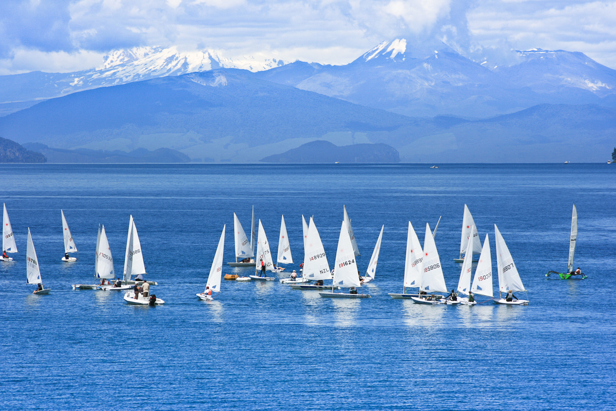 Sailing school training on nothern Lake Taupo, New Zealand.